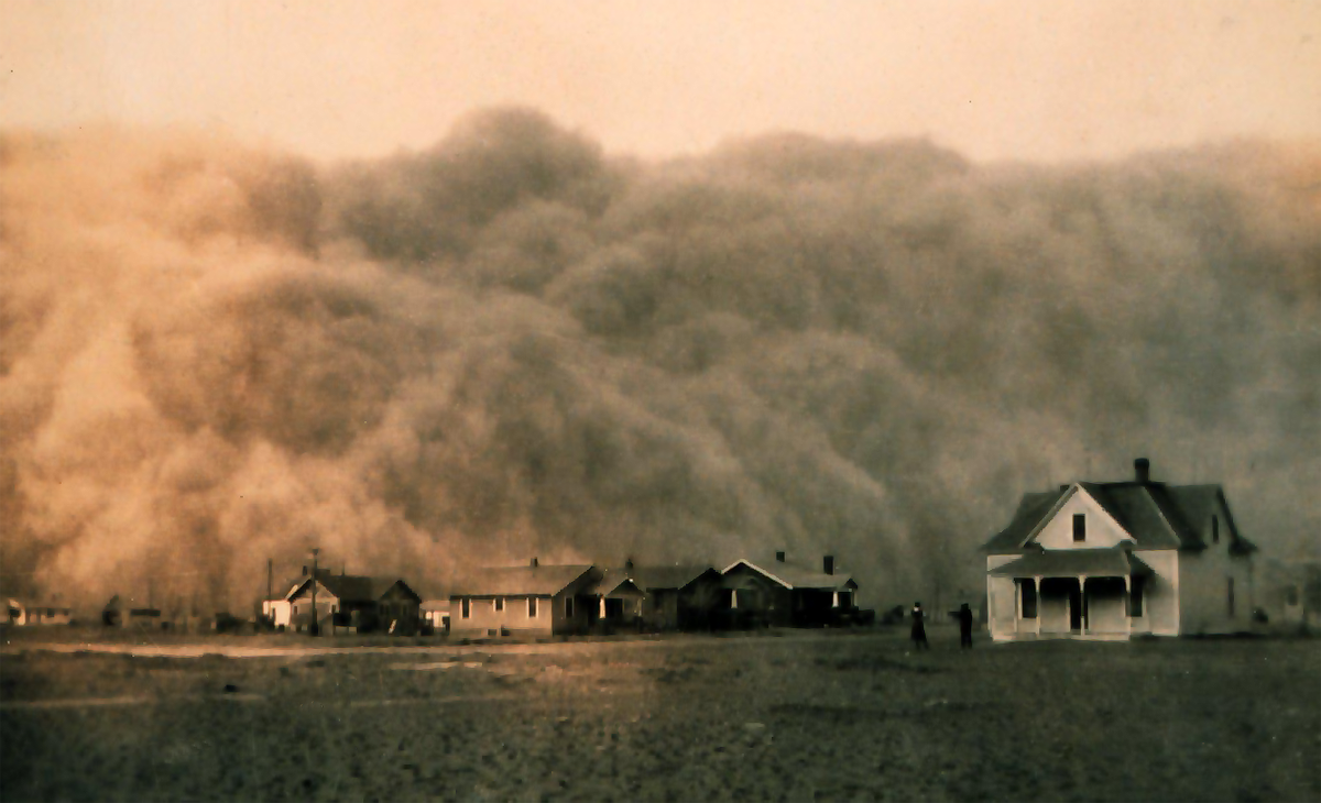 Dust storm approaching Stratford, Texas. Dust Bowl surveying in Texas. Image ID: theb1365, Historic C&GS Collectioncfhyr Location: Stratford, Texas